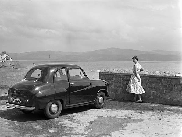 Teitl Cymraeg/Welsh title: Yr Austin A30 yn Bermo a Thal-y-llyn Ffotograffydd/Photographer: Geoff Charles (1909-2002) Dyddiad/Date: 01/05/1956 Cyfrwng/Medium: Negydd ffilm / Film negative Cyfeiriad/Reference: (gch13808) Rhif cofnod / Record no.: 3369283 Rhagor o wybodaeth am gasgliad Geoff Charles yn Llyfrgell Genedlaethol Cymru More information about the Geoff Charles Collection at the National Library of Wales Mae ffotograffau Geoff Charles hefyd yn rhan o Broject Europeana Libraries Geoff Charles' photographs also form part of the Europeana Libraries Project